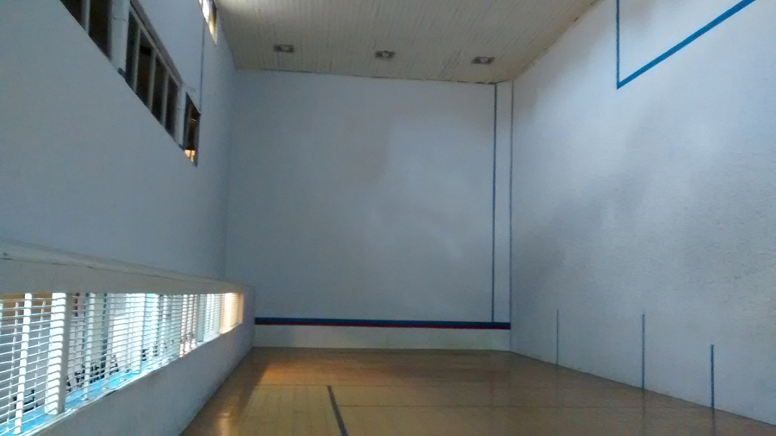 Old white trinquete court from Buenos Aires